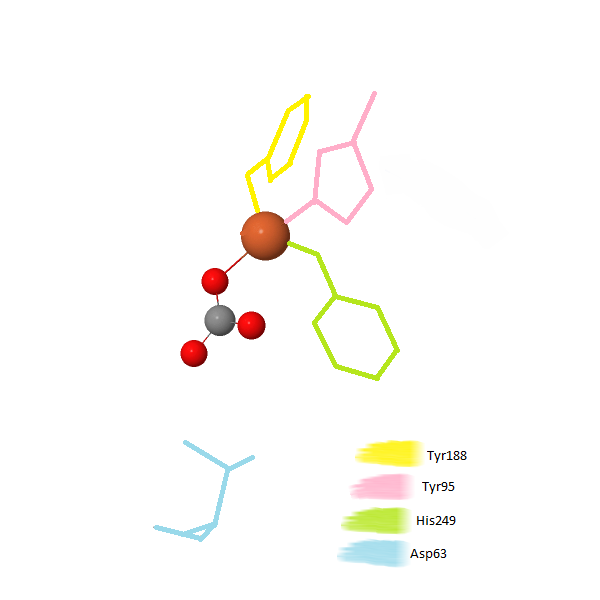 Image modified extracted from pdb